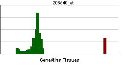 Gene expression pattern of the GFAP gene.